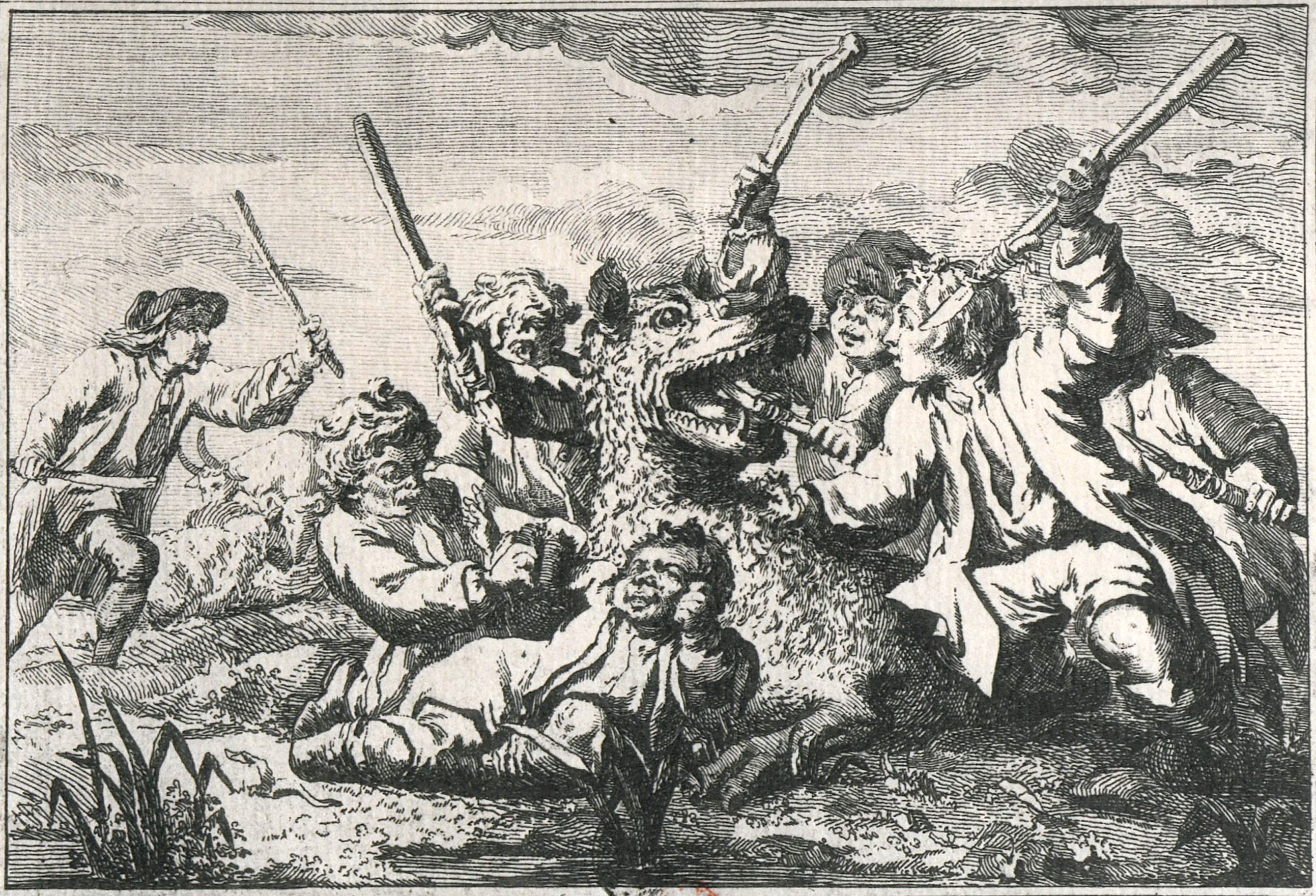 18th century print depicting the Beast of Gévaudan.